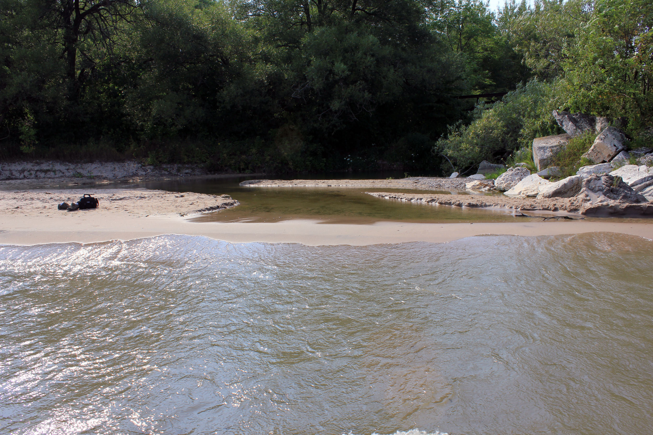 The mouth of Fischer Creek, emptying out into Lake Michigan